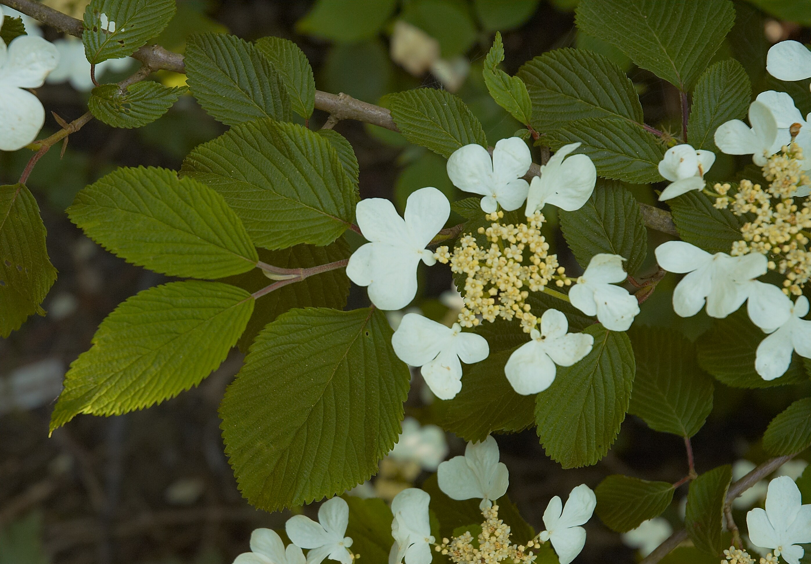 Viburnum plicatum 'Mariesii' (photo taken in Belgium)